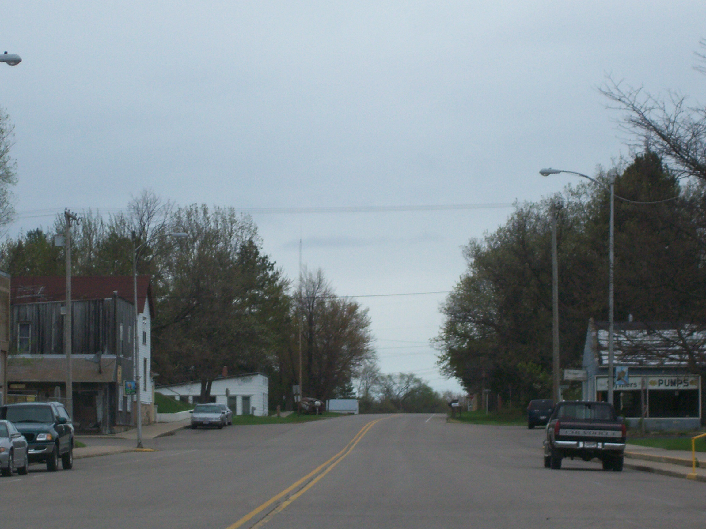 Looking north at Almond, Wisconsin, USA.